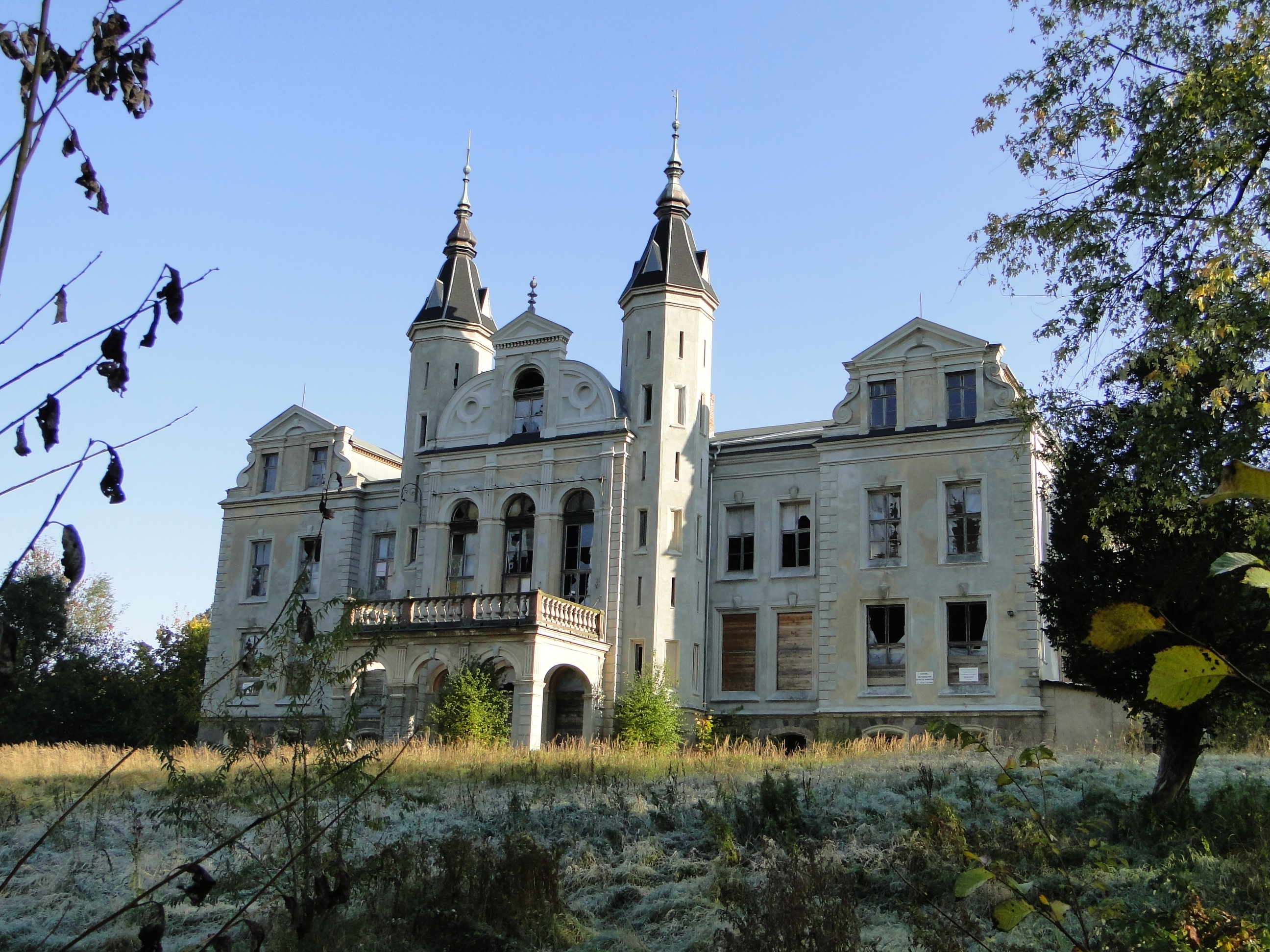 Manor house in Mallin, district Müritz, Mecklenburg-Vorpommern, Germany